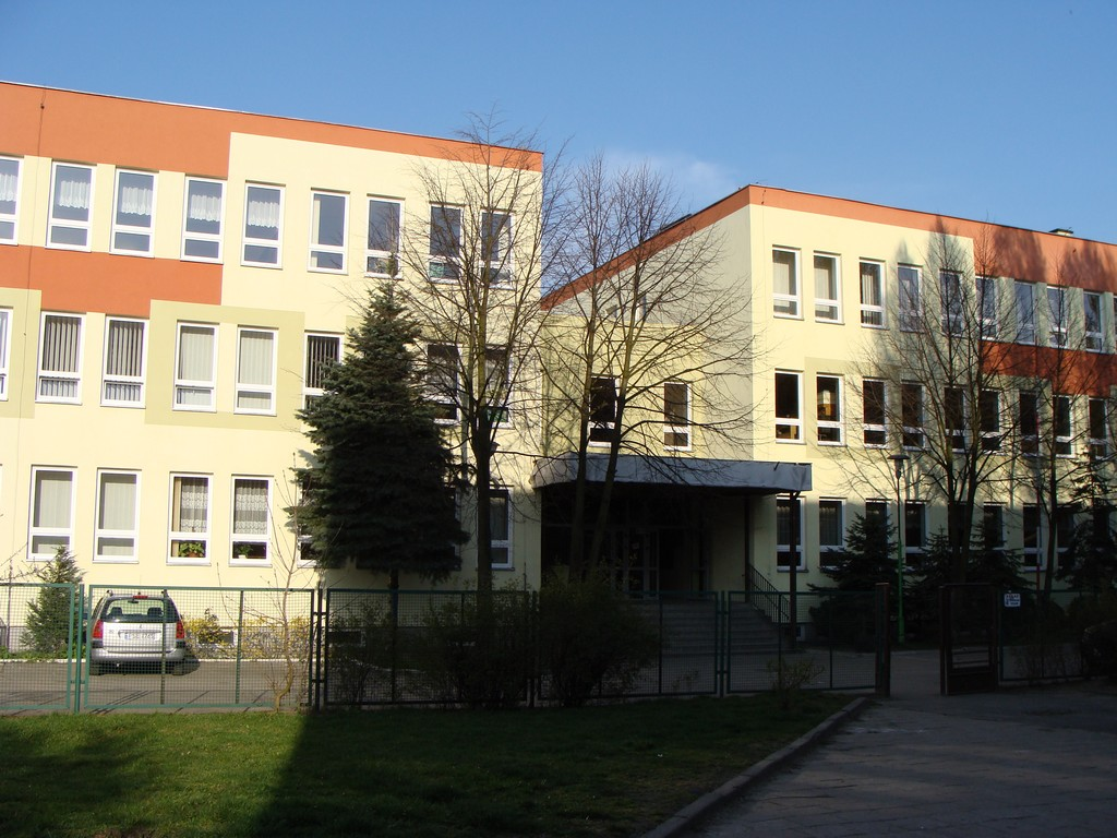 Śrem, Grammar School No. 1.